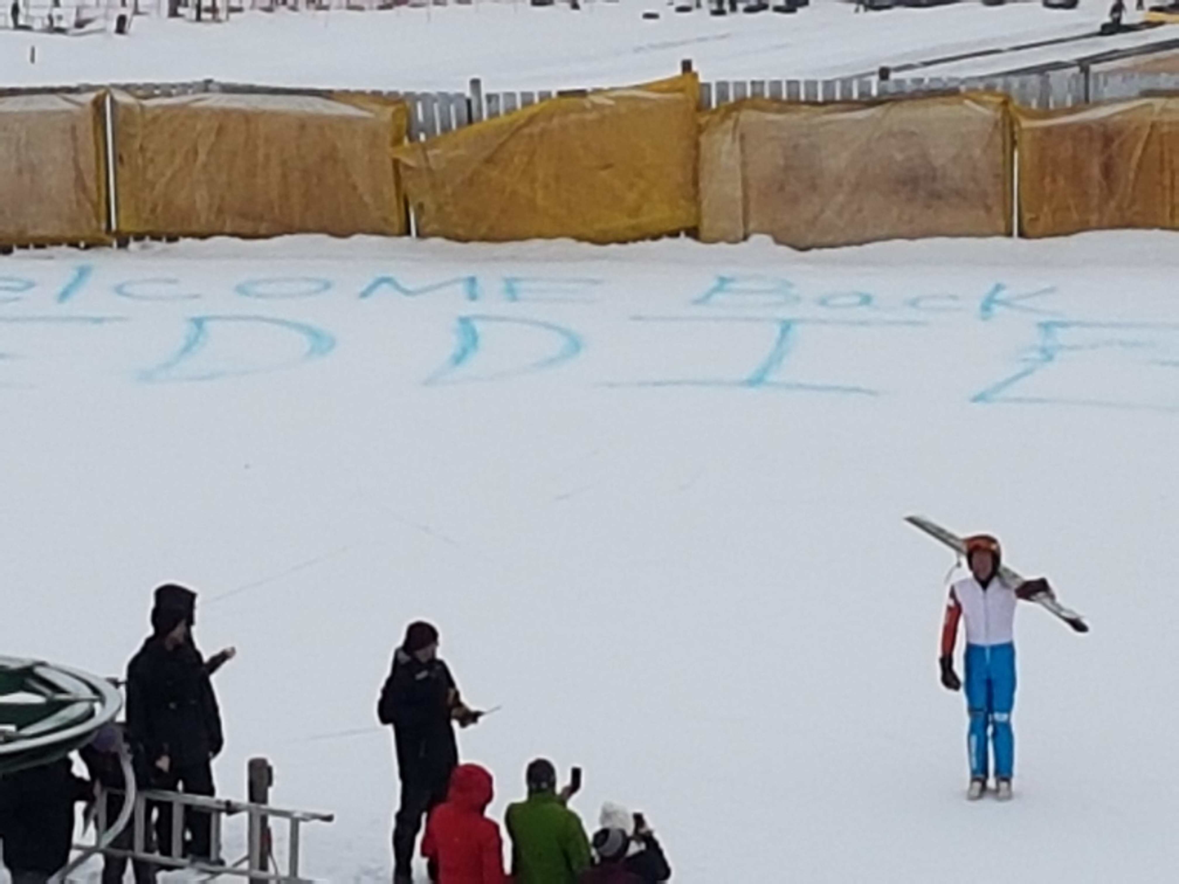 Eddie "The Eagle" Edwards return to Calgary in March 2017.